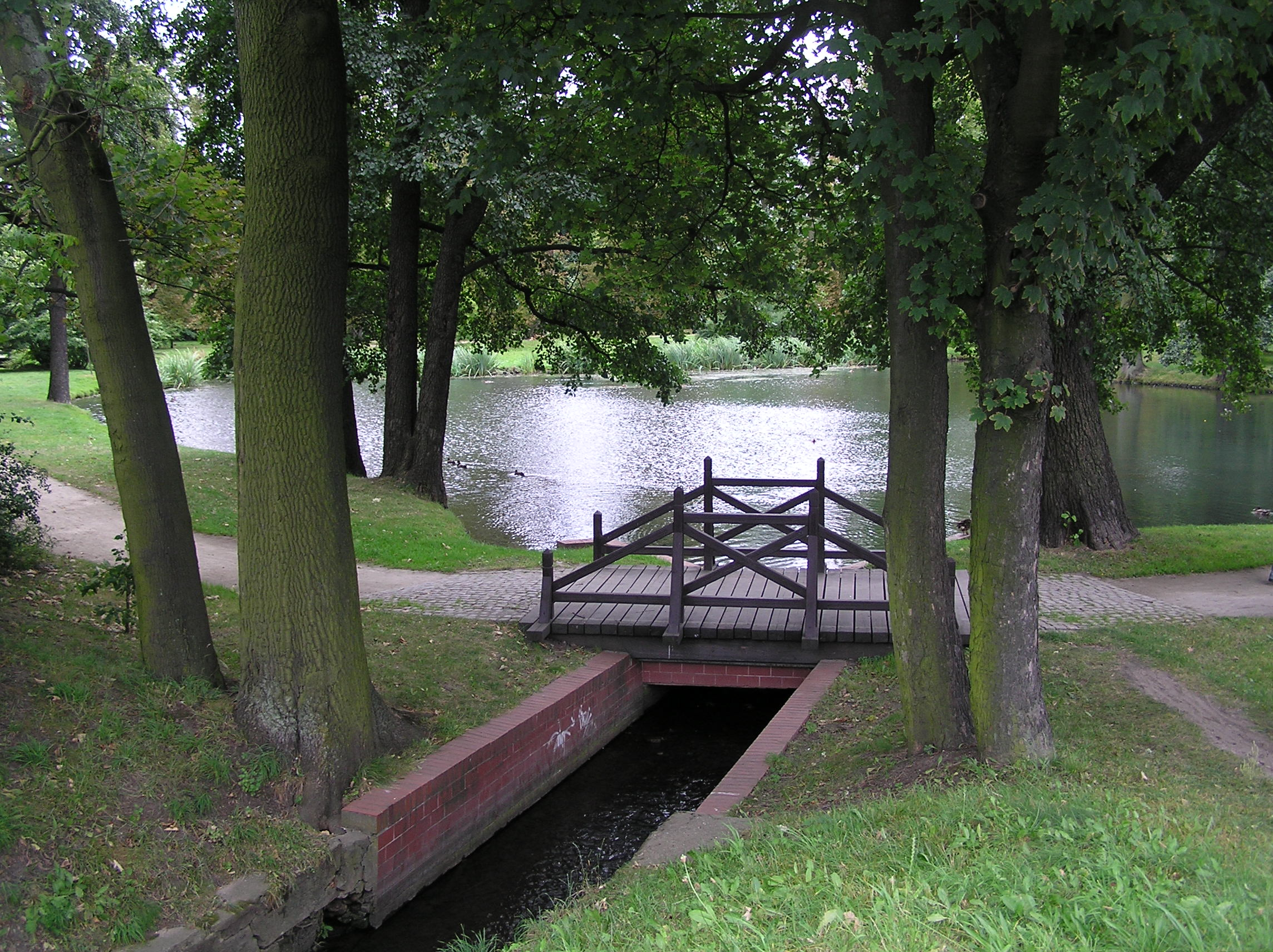 Poland, Wroclaw, Brochowski Park, Brochówka River, pond in park